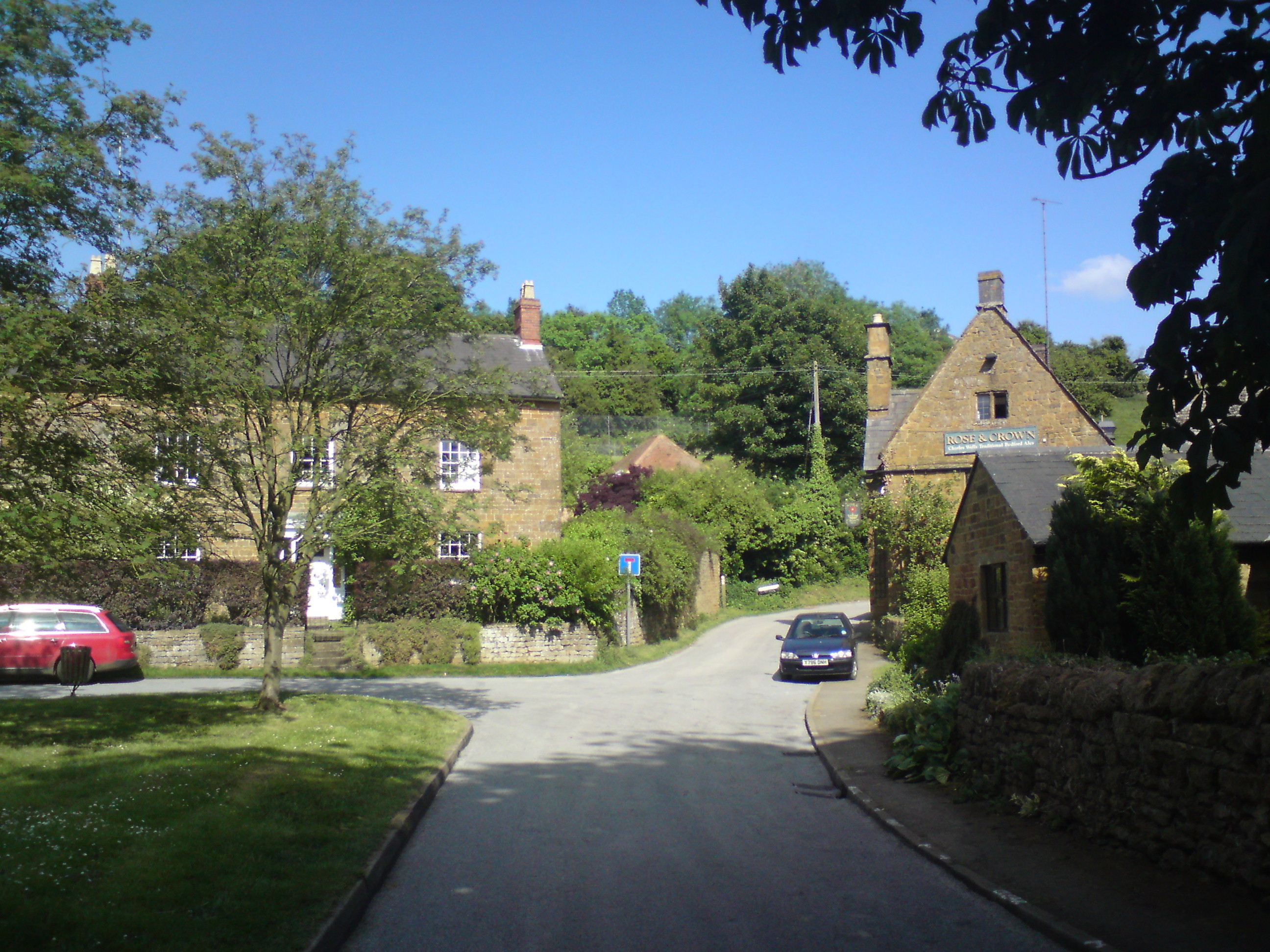 A view of Ratley, Warwickshire, England taken from next to the church gate.